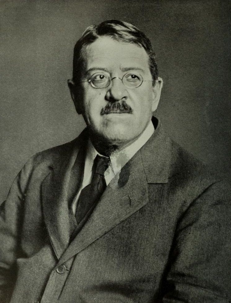 Portrait of George Andrew Reisner